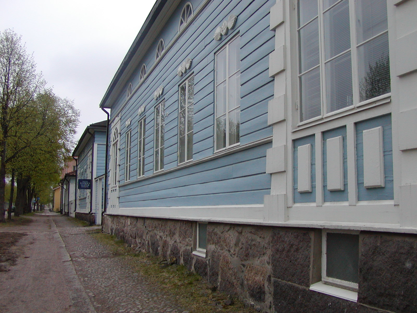 Studio of Walter Runeberg (son of Johan Ludvig Runeberg) in Porvoo, Finland.